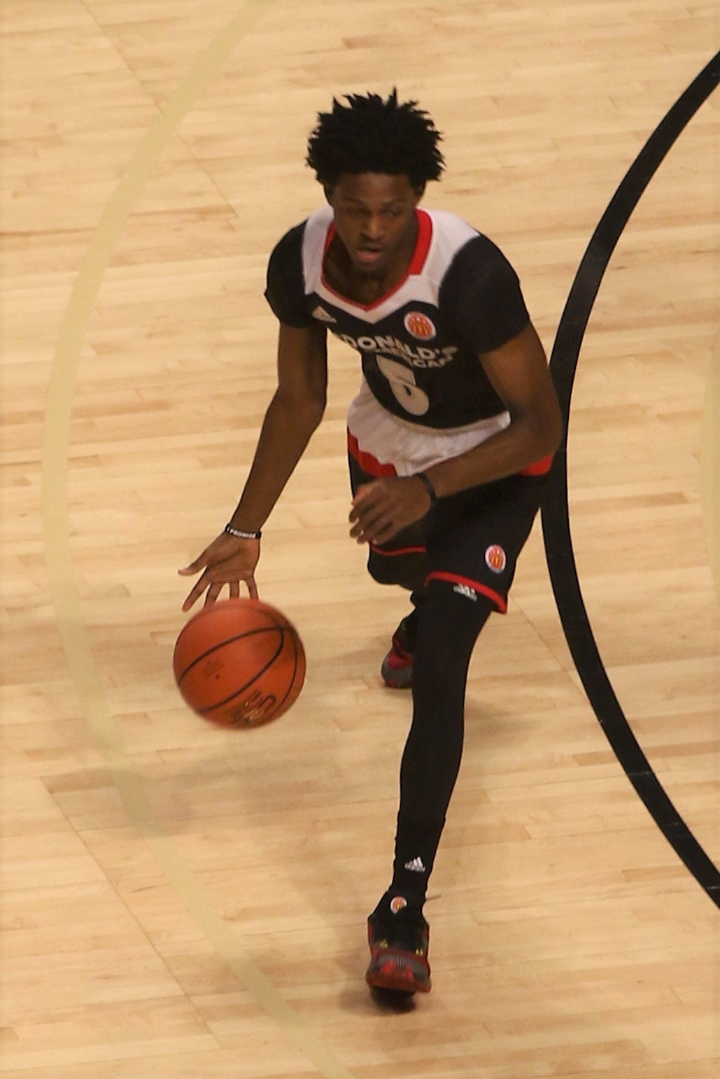 De'Aaron Fox at the w:2016 McDonald's All-American Boys Game